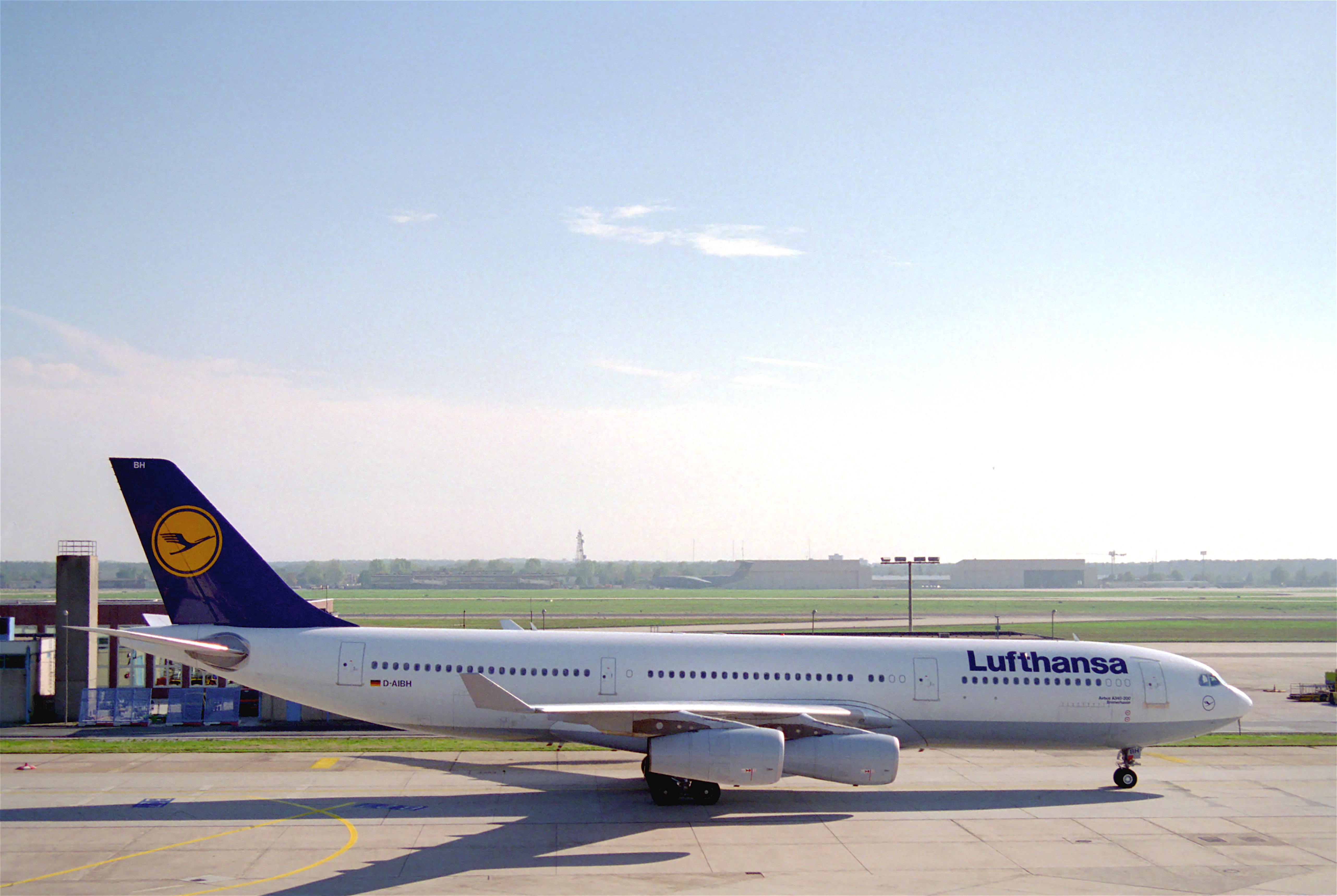 This A340-211 took its first flight on August 6, 1993...(c/n 21) 22/10/1993 Lufthansa D-AIBH 10/11/2003 South African Airways ZS-SLE stored 06/2011 and subsequently scrapped